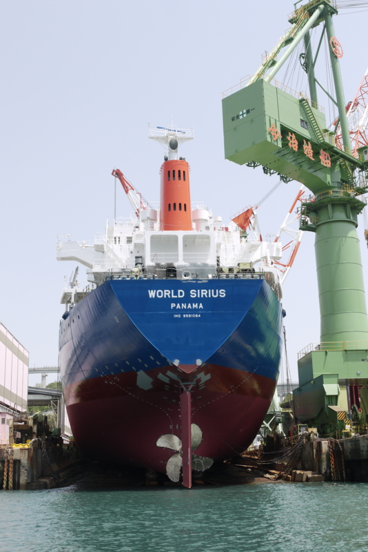 Imabari Shipyard of Imabari Shipbuilding Co., Ltd. See the map, and the photographer's blog.